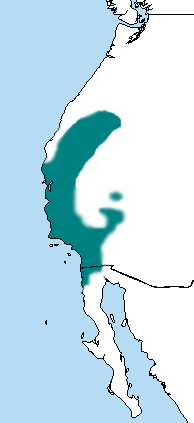 Distribution Map of Picoides nuttallii